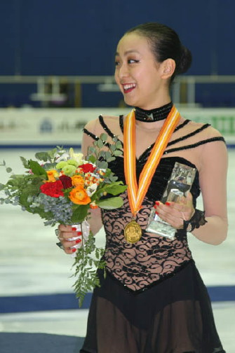 Mao Asada during the ladies medals ceremony at the 2008-2009 Grand Prix Final.